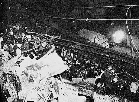 Mikawashima train crash